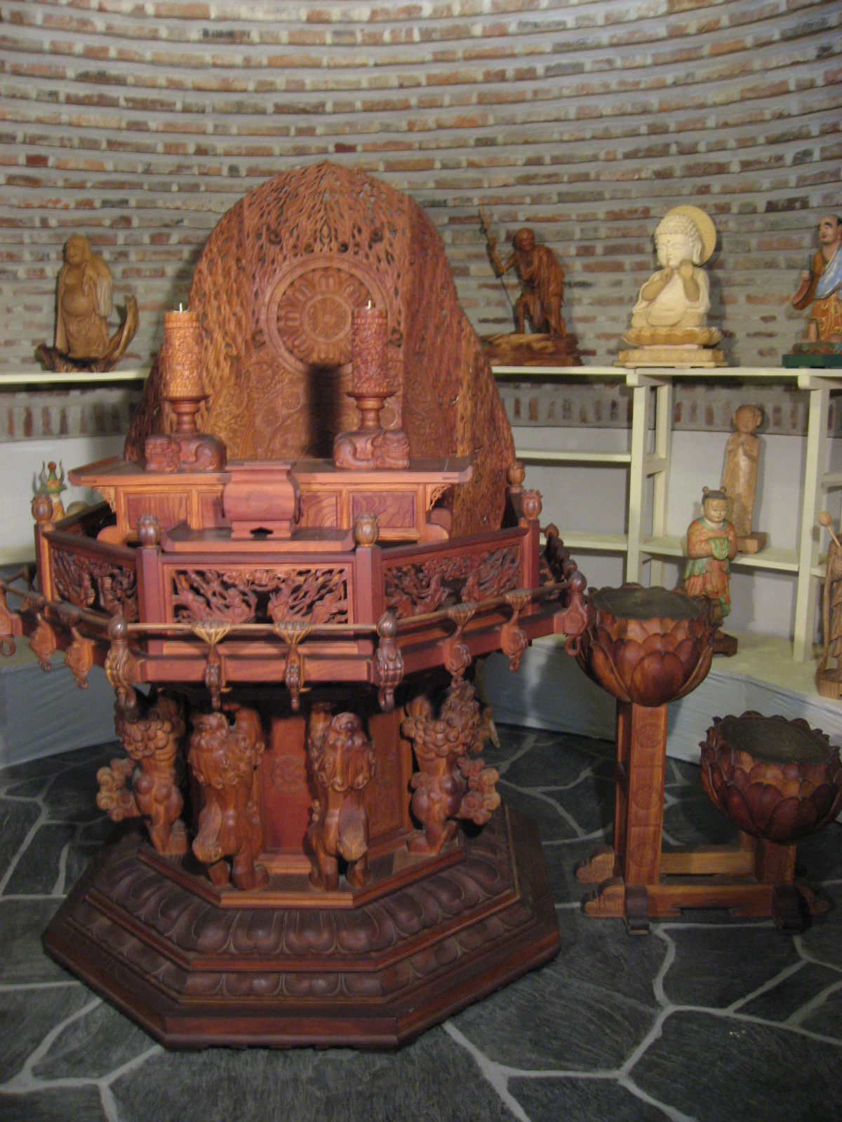 Buddhist trone displayed at Mok-A Buddhist Museum in Yeoju, Gyeonggi Province, South Kore. 목아불교박물관은 한국 전통 목공예와 불교미술품 중심으로 대한민국 경기도 여주시에 위치한 박물관으로 불좌를 전시하였다.